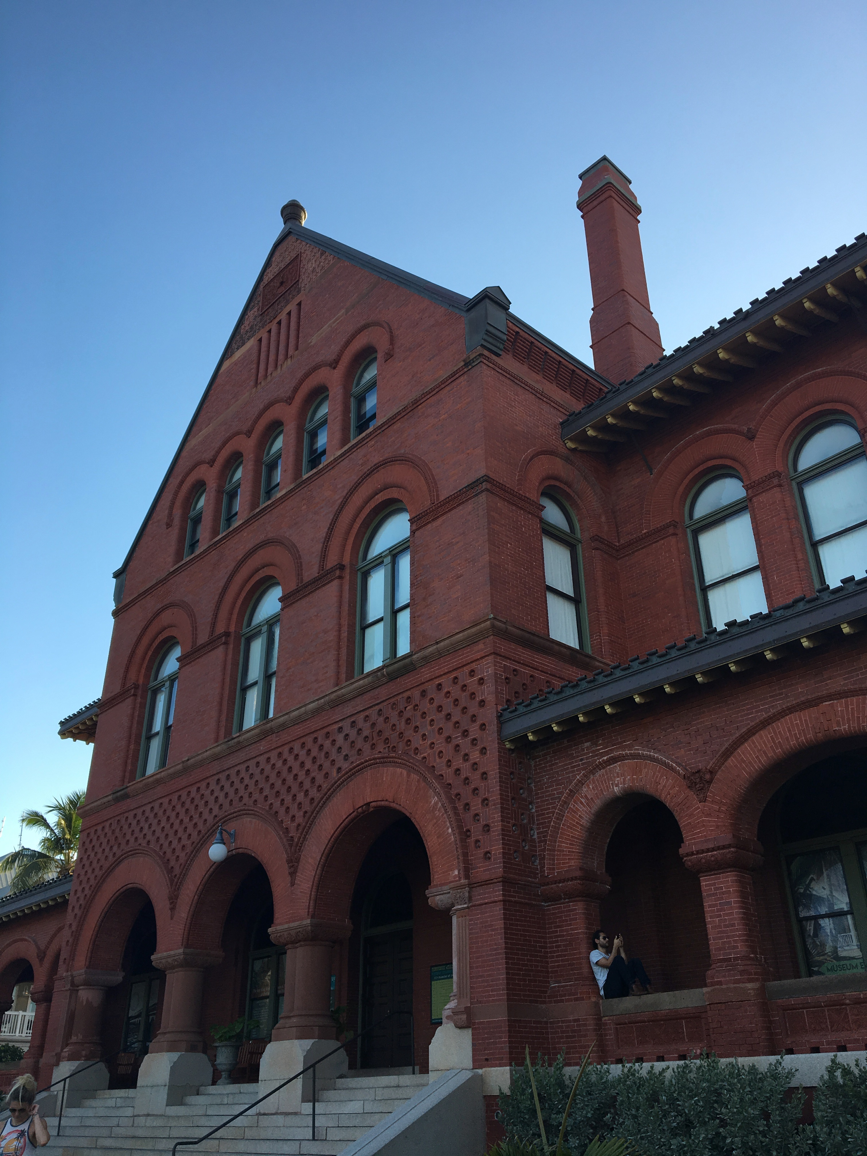 Old Post Office and Customshouse in Key West Florida